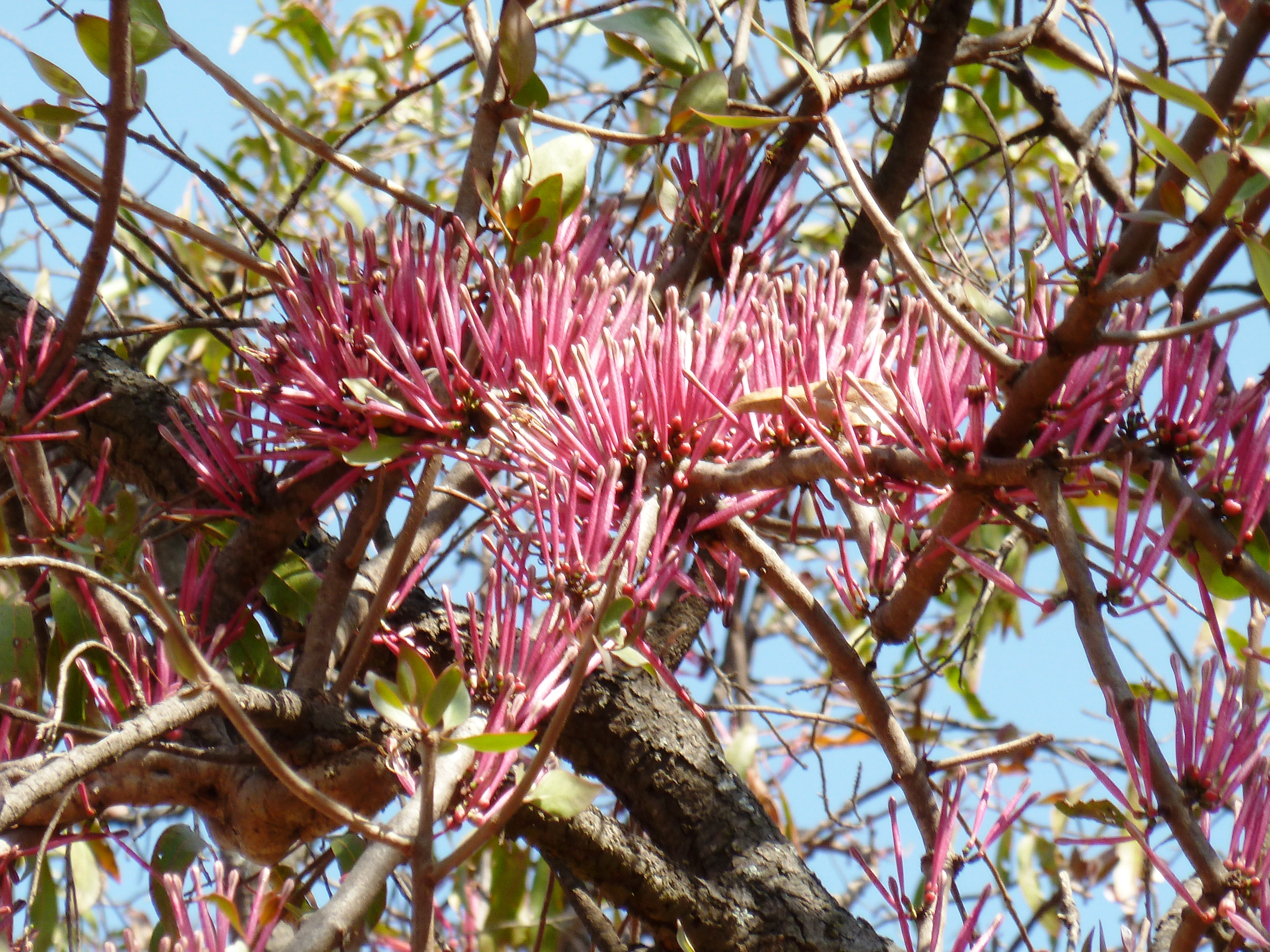 Flowers of the semi-parasitic Red mistletoe growing in Faurea saligna in the Waterberg, South Africa. A few flowers have opened at top left. The other tree species parasitized locally is Protea caffra, also Proteaceae, while other trees are unaffected.